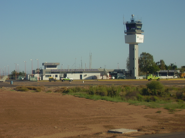 Los Móchis International Airport, General Aviation Terminal